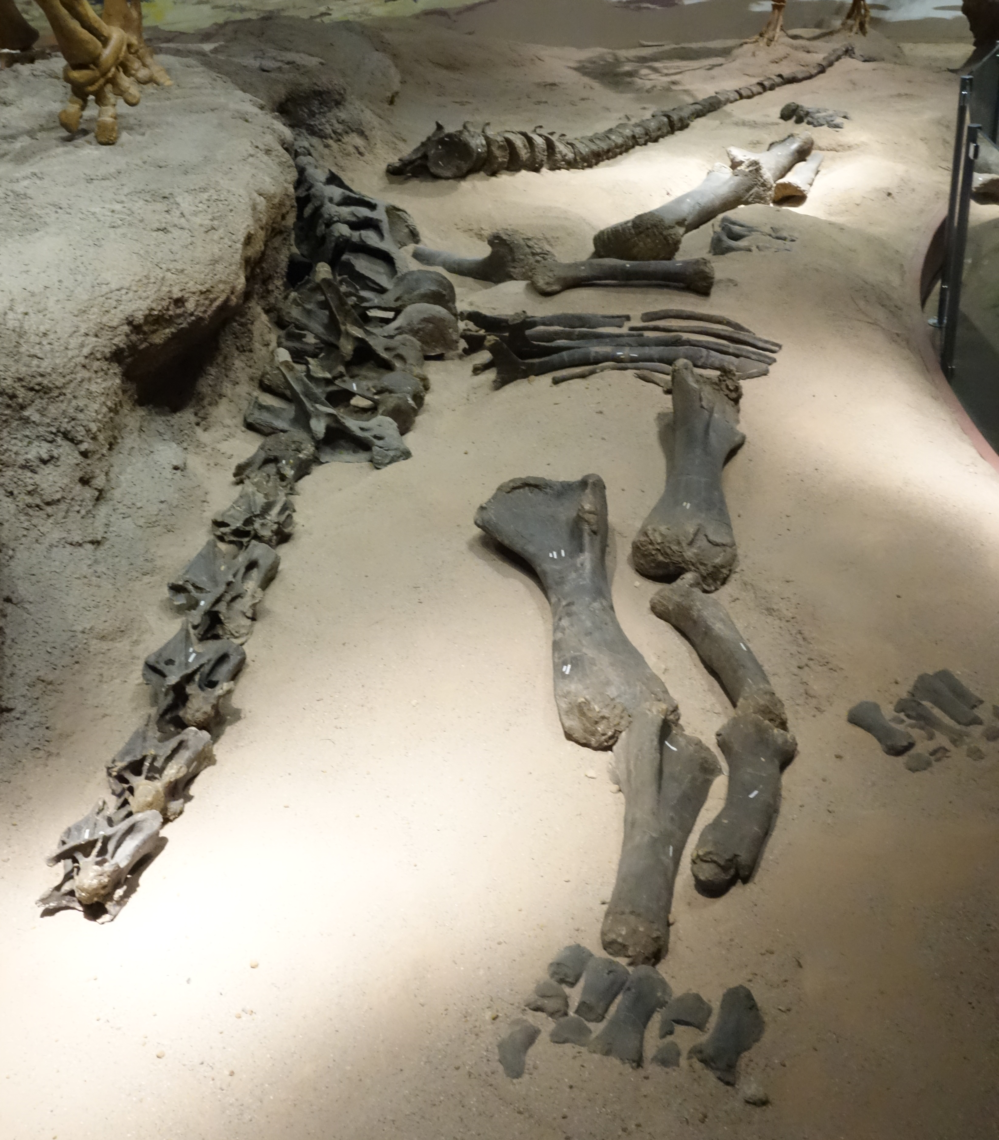 Haplocanthosaurus specimen (90% real bone), on display at the Utah Field House of Natural History State Park Museum, Vernal, Utah. Specimen was found near Vernal. Specimen number FHPR 1106.